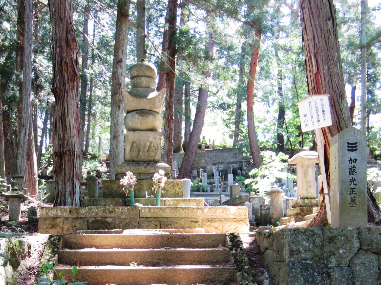 The grave of Katō Mitsumasa at Hokke-ji in Takayama, Gifu.